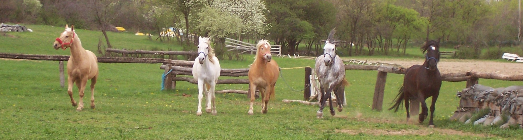 Five horses (four barefoot) in a lucky picture when playing into a large paddok.